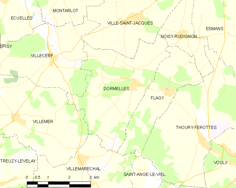 Map of French municipality Dormelles